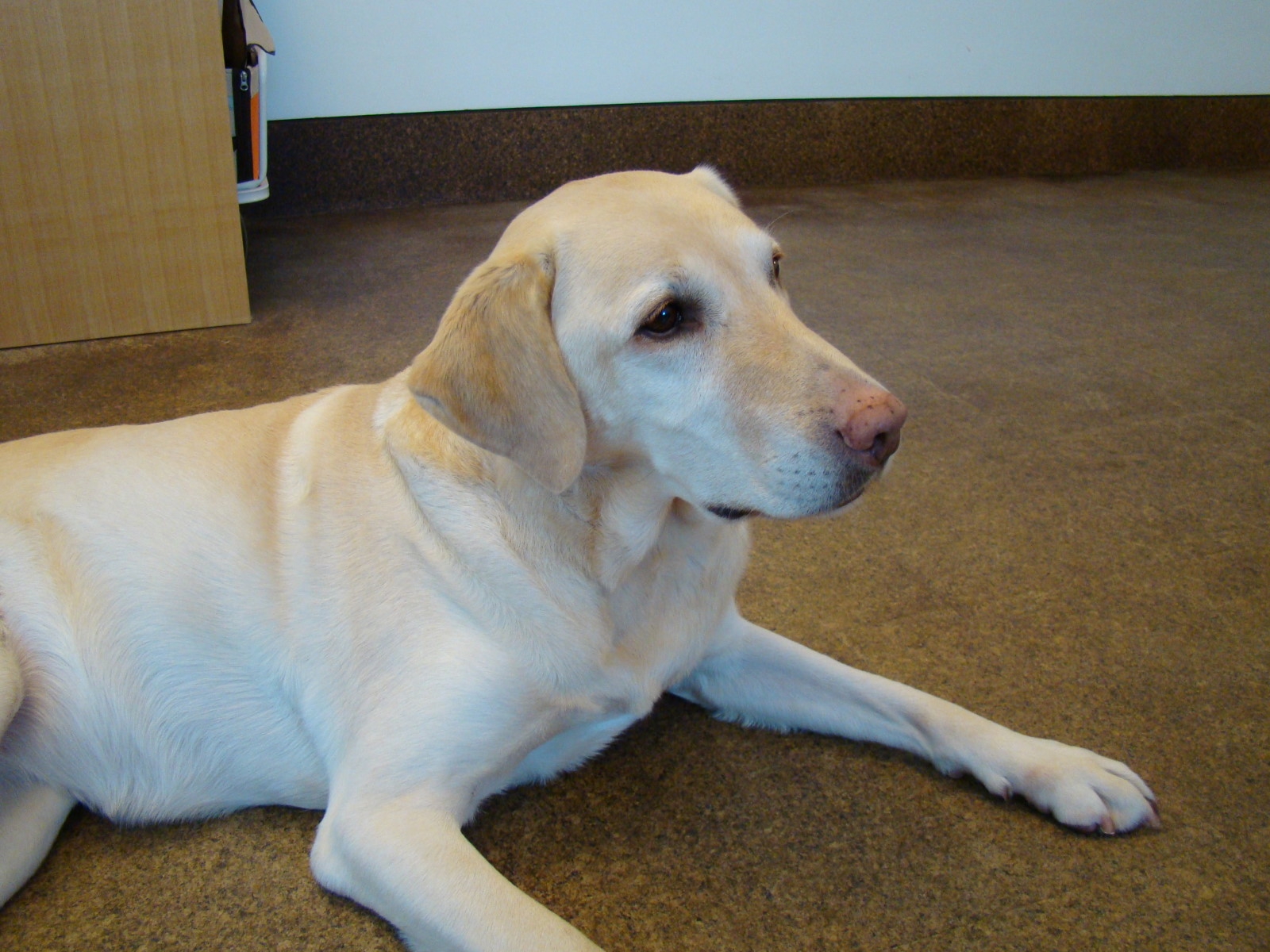 Guide dog in Fujinomiya